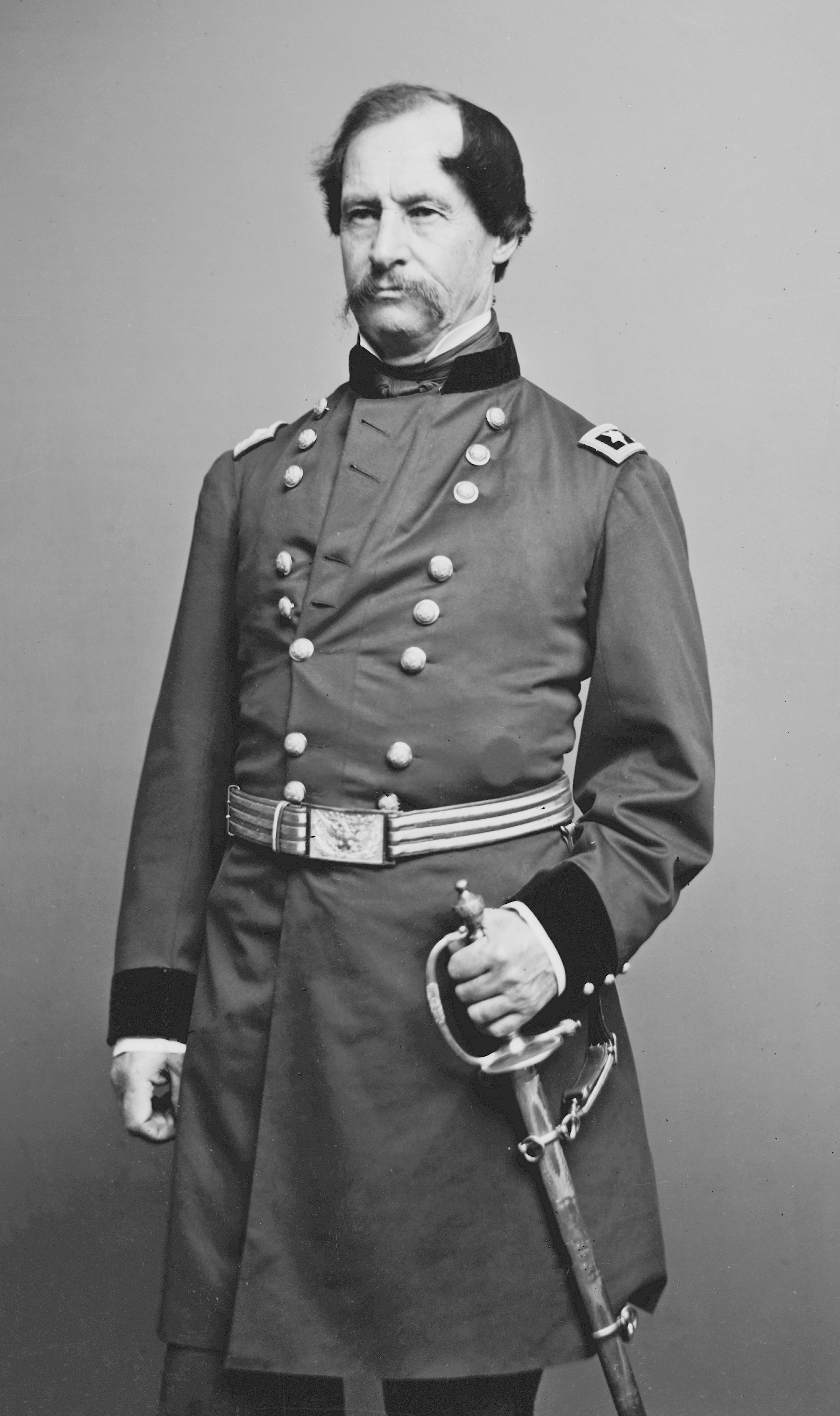 Library of Congress Civil War Collection